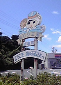 This is a plate of Abalone Kingdom or Awabi Ohkoku(あわび王国) in Shima, Mie, Japan.